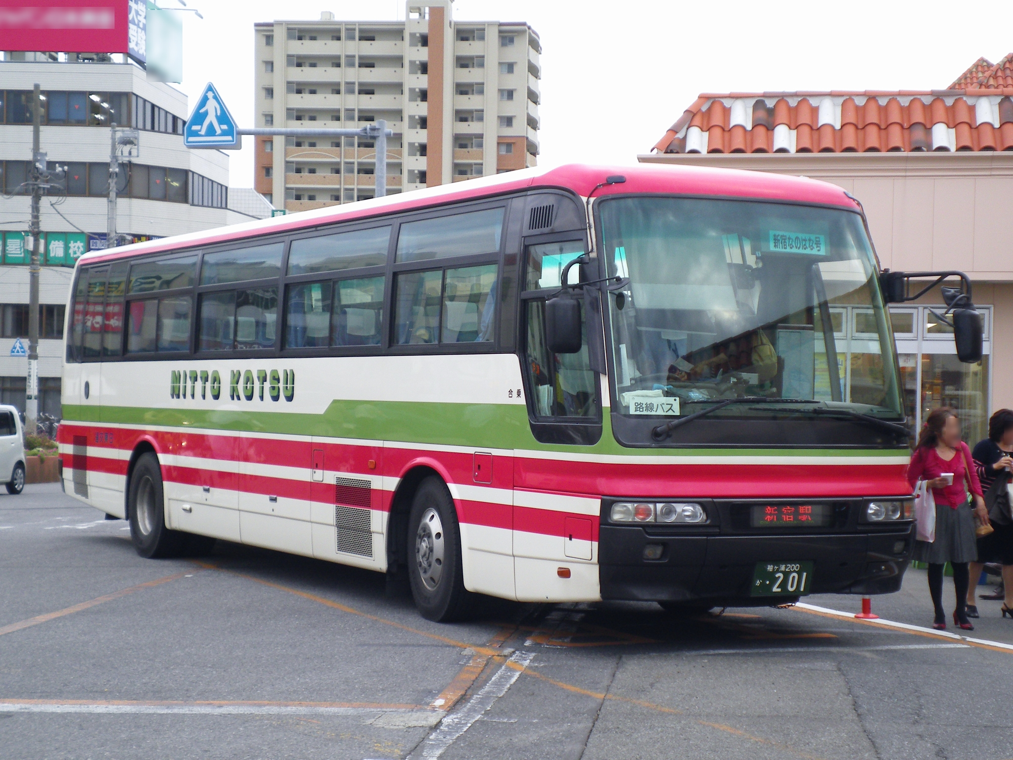 Mitsubishi Fuso,Aero Bus. Shooting in the JR Tateyama Station.